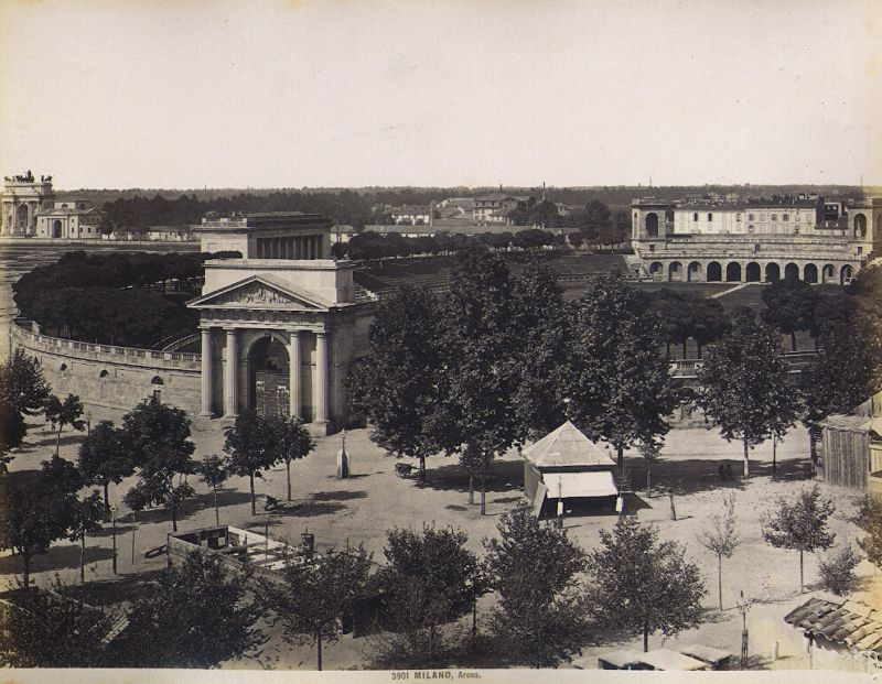 Giacomo Brogi (1822-1881) - "Milan. Arena". Catalogue # 3901.